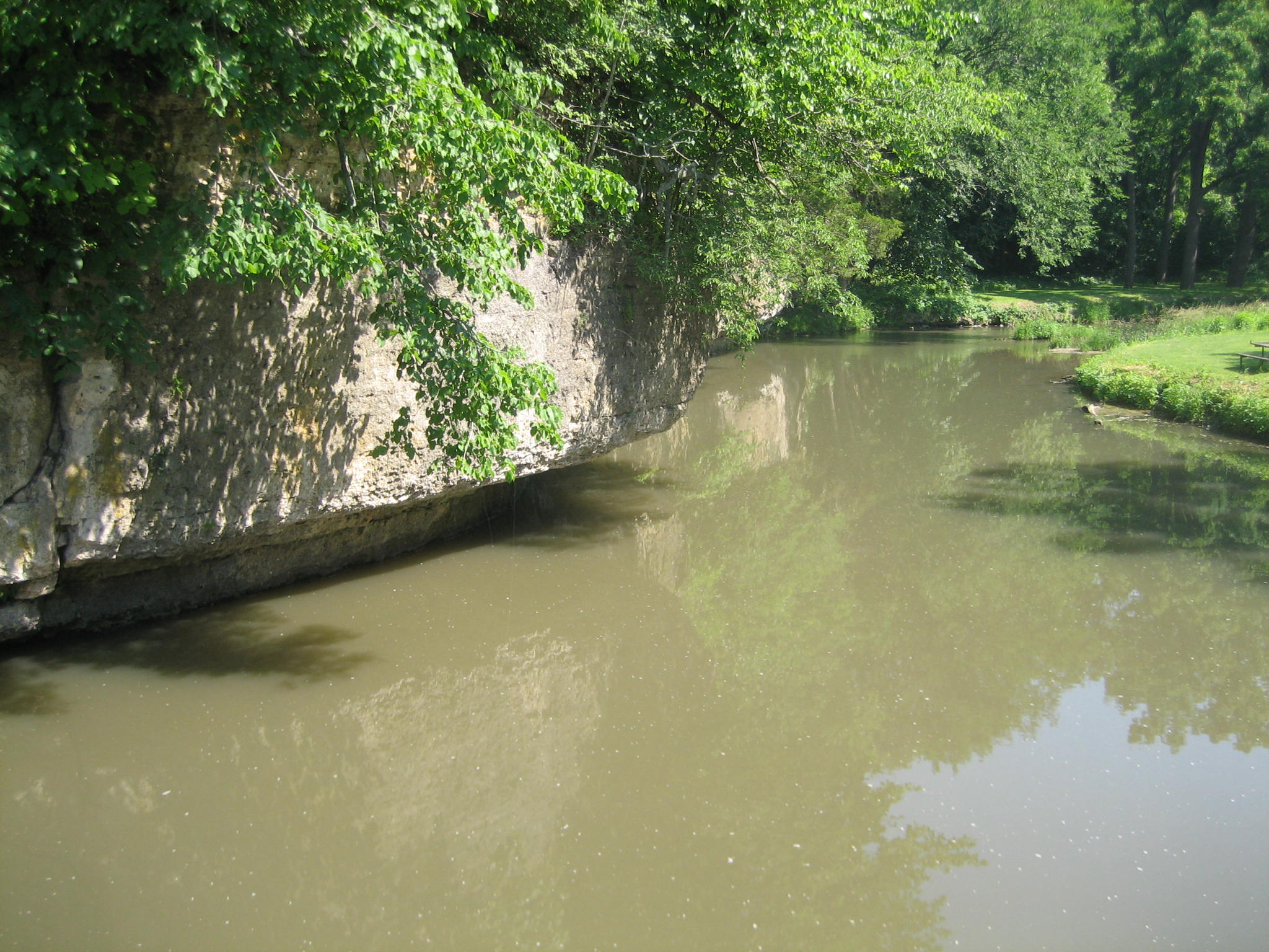 Dolomite rock formations over the Pine Creek in White Pines Forest State Park, near Mount Morris, Illinois.